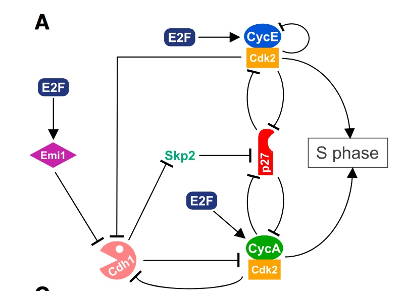 Depiction of G1/s transition cell cycle regulation. Figure taken from Figure 2A of Author credit: Alexis R. Barr, Frank S. Heldt, Tongli Zhang, Chris Bakal, and Be ́ la Nova ́